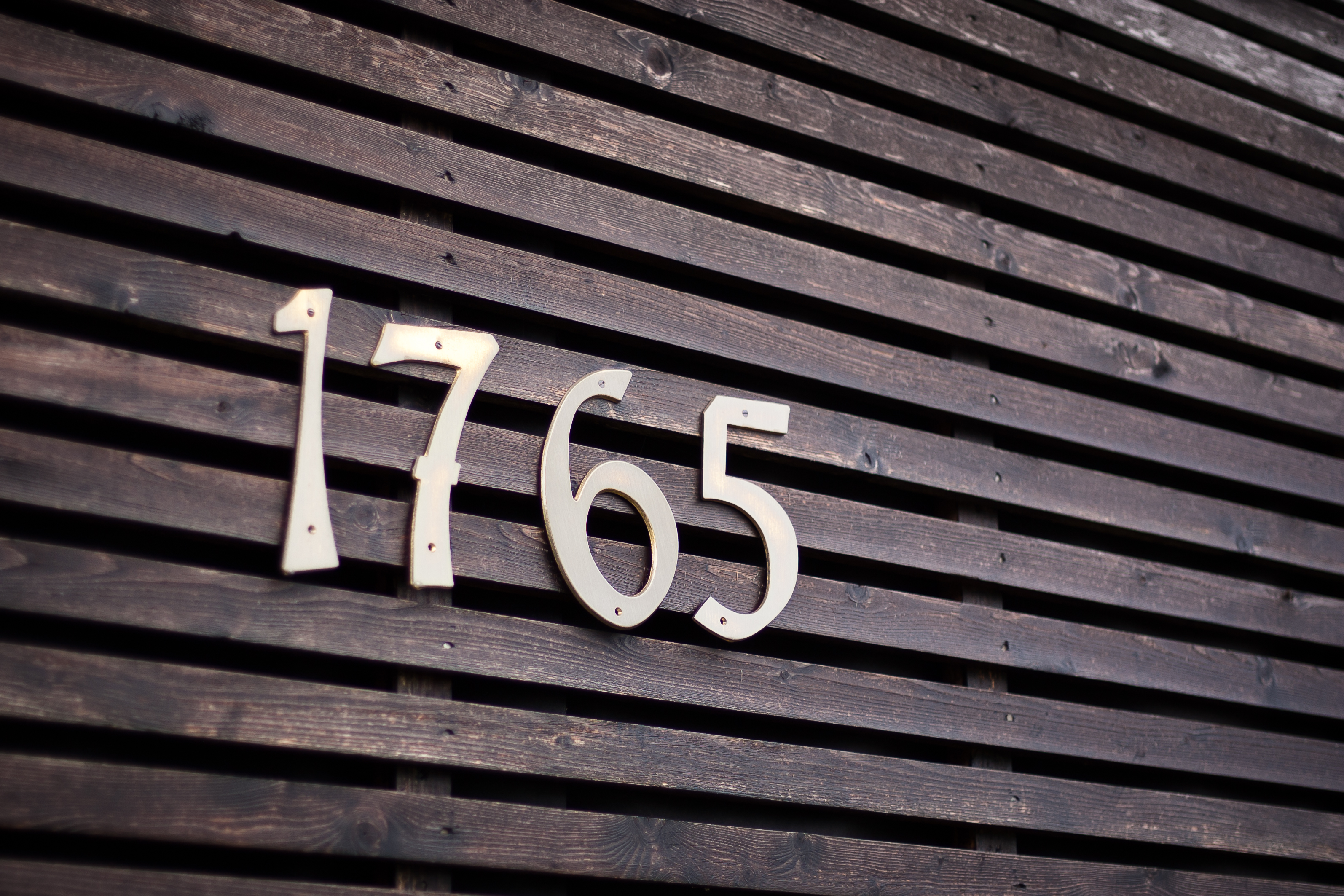 A small monument at Radøy Art Center, Bergen, Norway, commemerating the Strilekrigen, a farmers' rebellion in 1765.